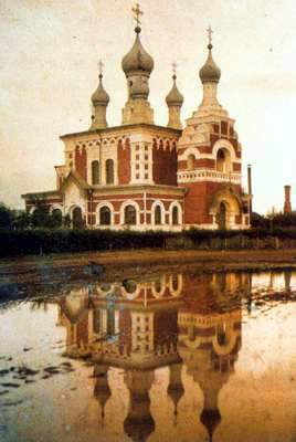 The Russian Orthodox church of the Iverian Icon of the Theotokos, in Harbin, China